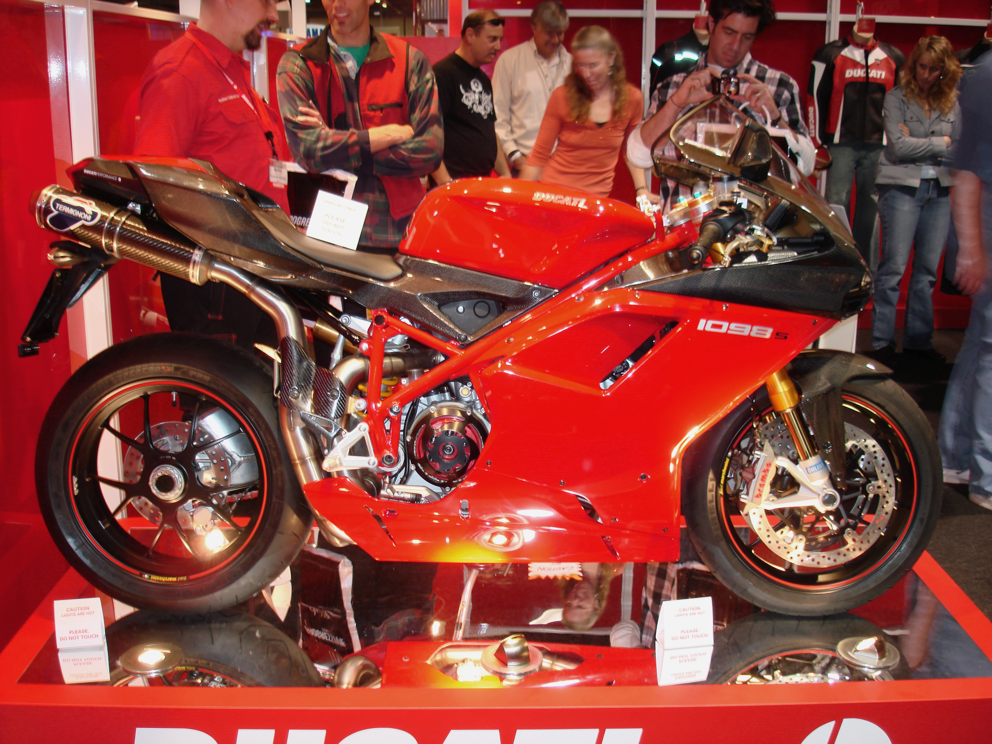 2007 Ducati 1098 S on display at the 2006 International Motorcycle Show in Long Beach, CA. Camera used was a Sony Cyber-shot DSC-W100.